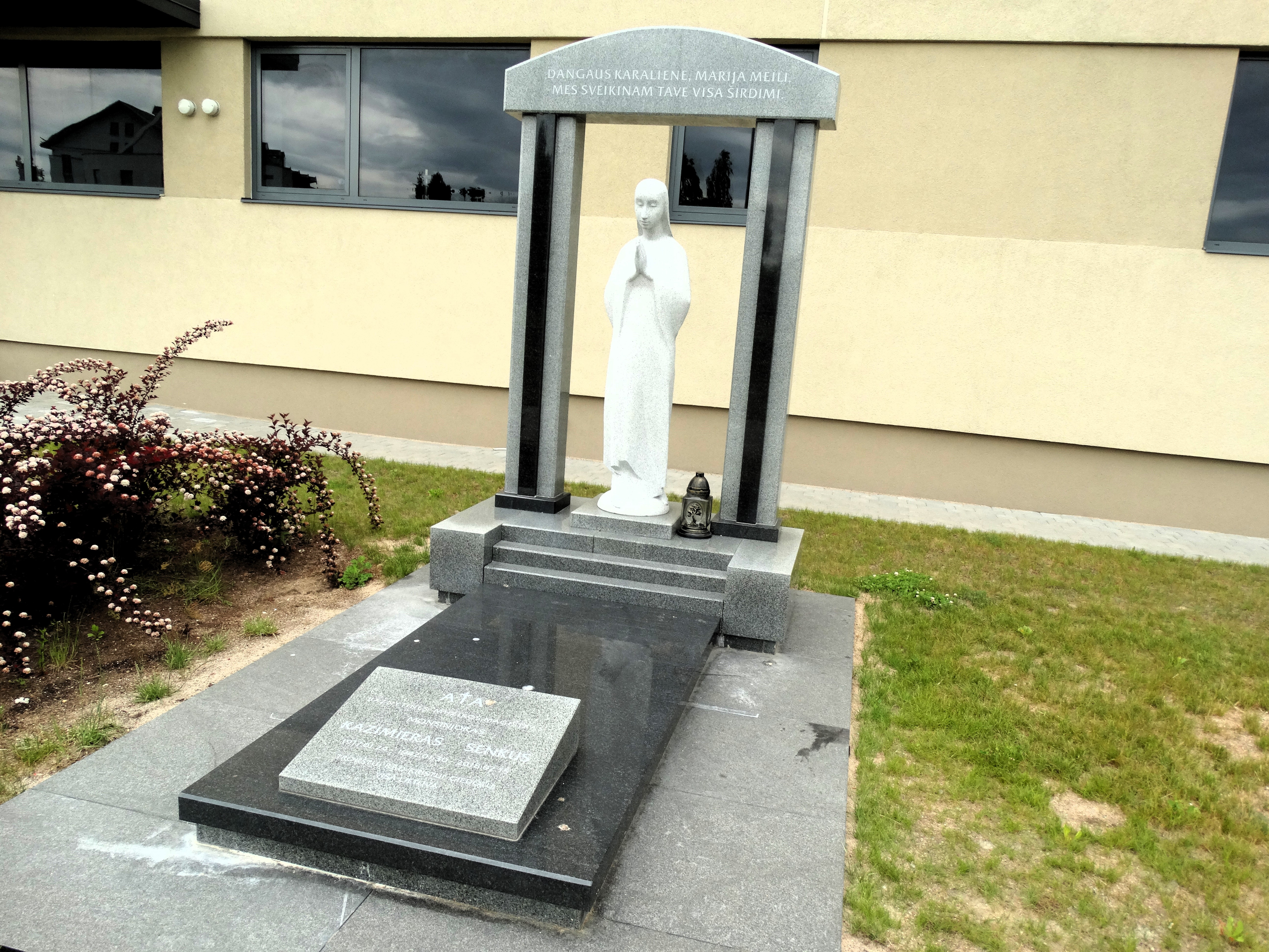 Kazimieras Senkus, tomb by the Matulaitis Church in Kaunas, Lithuania